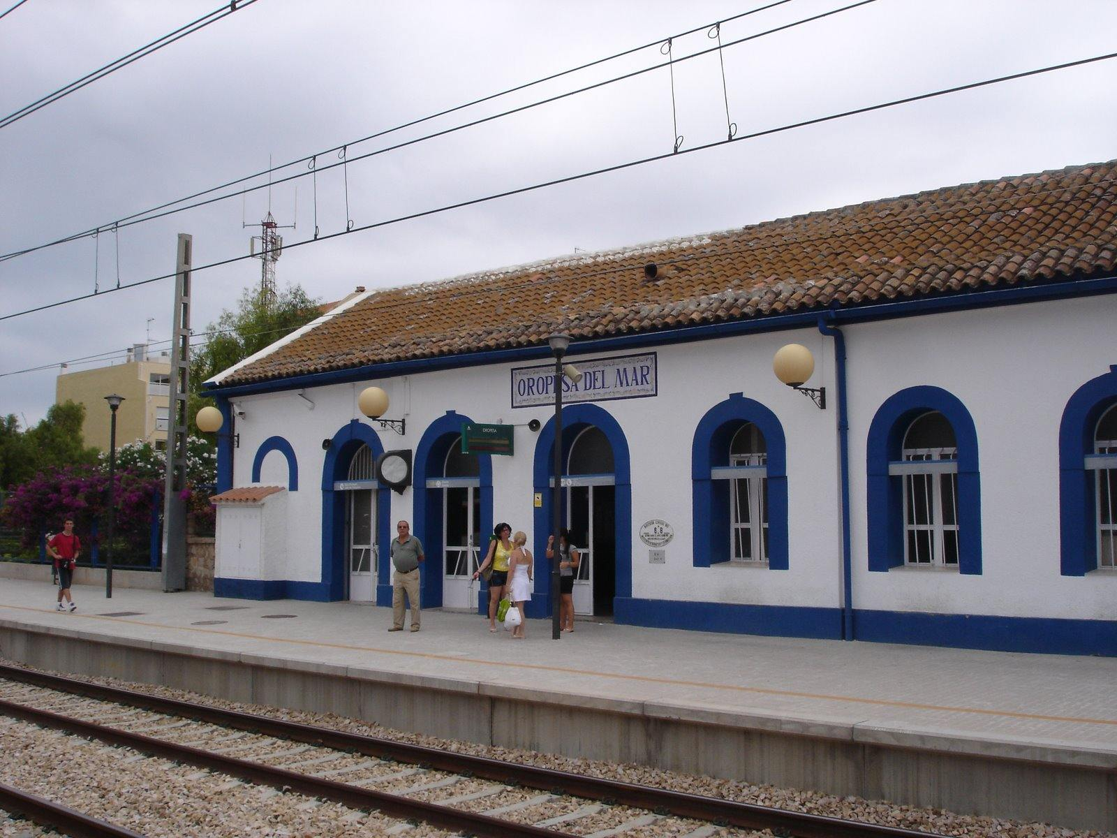 Train station in Oropesa del Mar, Spain.